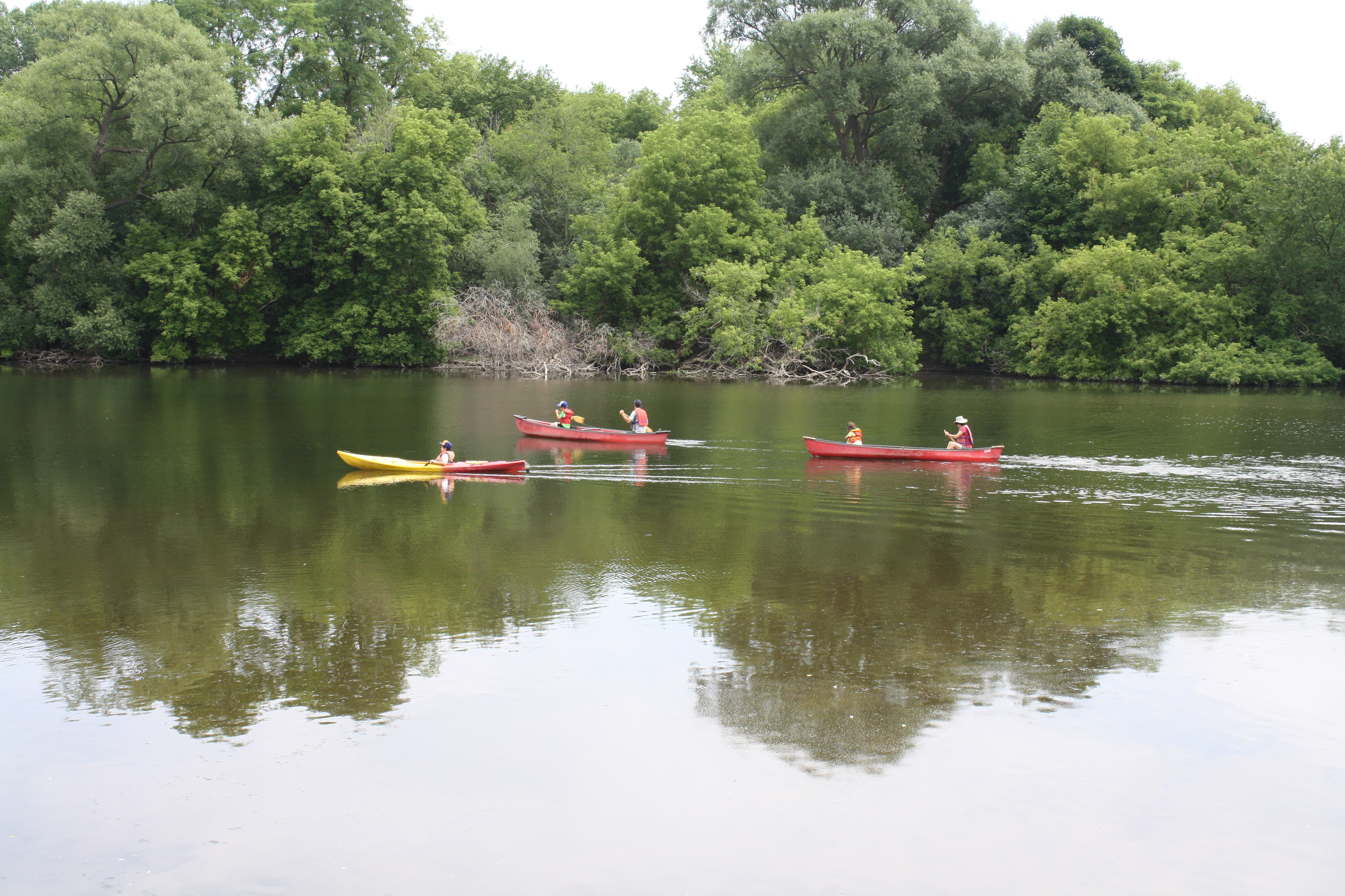 Canoeing and kayaking on the Speed River